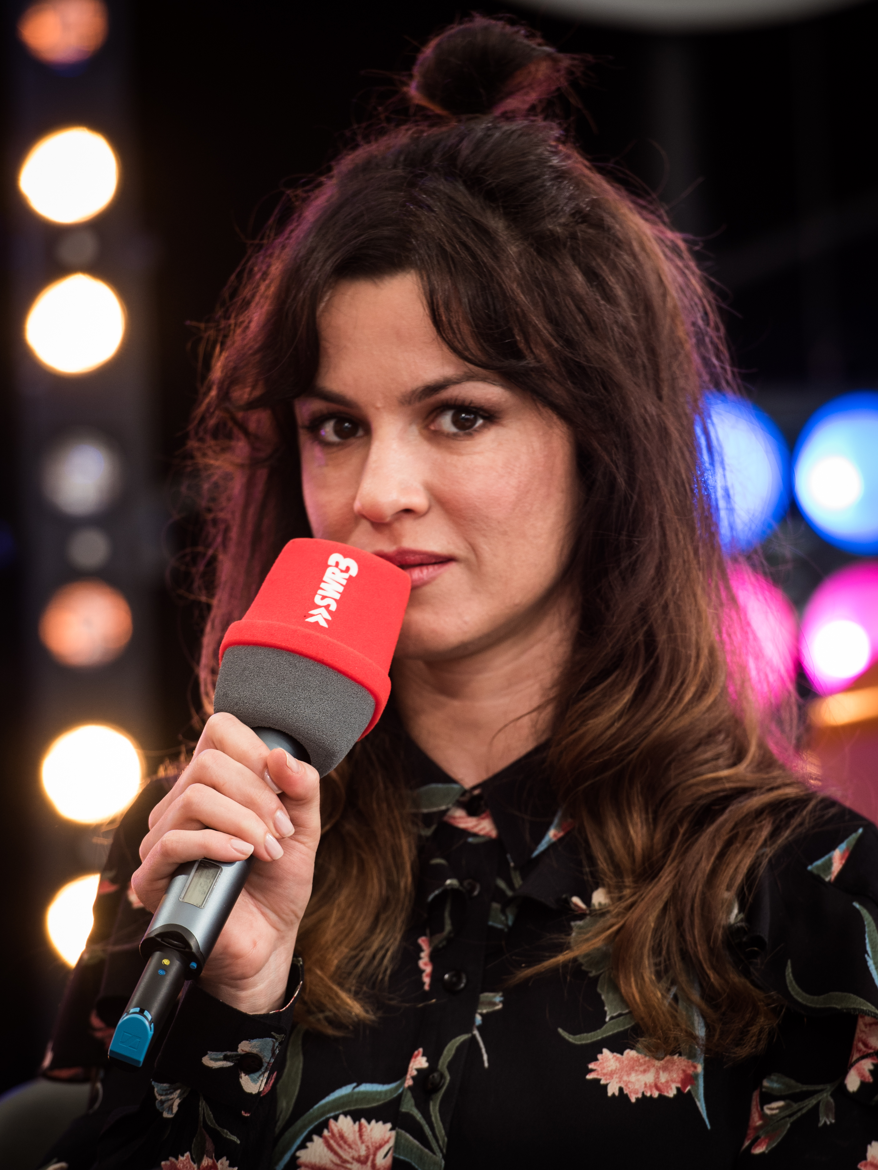 German actress Natalia Avelon at the SWR3 New Pop Festival 2017